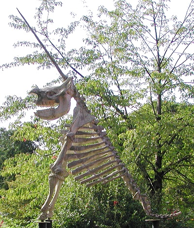 Faked Unicorn-Skeleton, 1678 by scientist Otto von Guericke, using remains of a Woolly Rhinoceros, a Mammoth and the horn of a Narwhal. Exhibit near the entrance of the Zoo of Osnabrück, Germany.